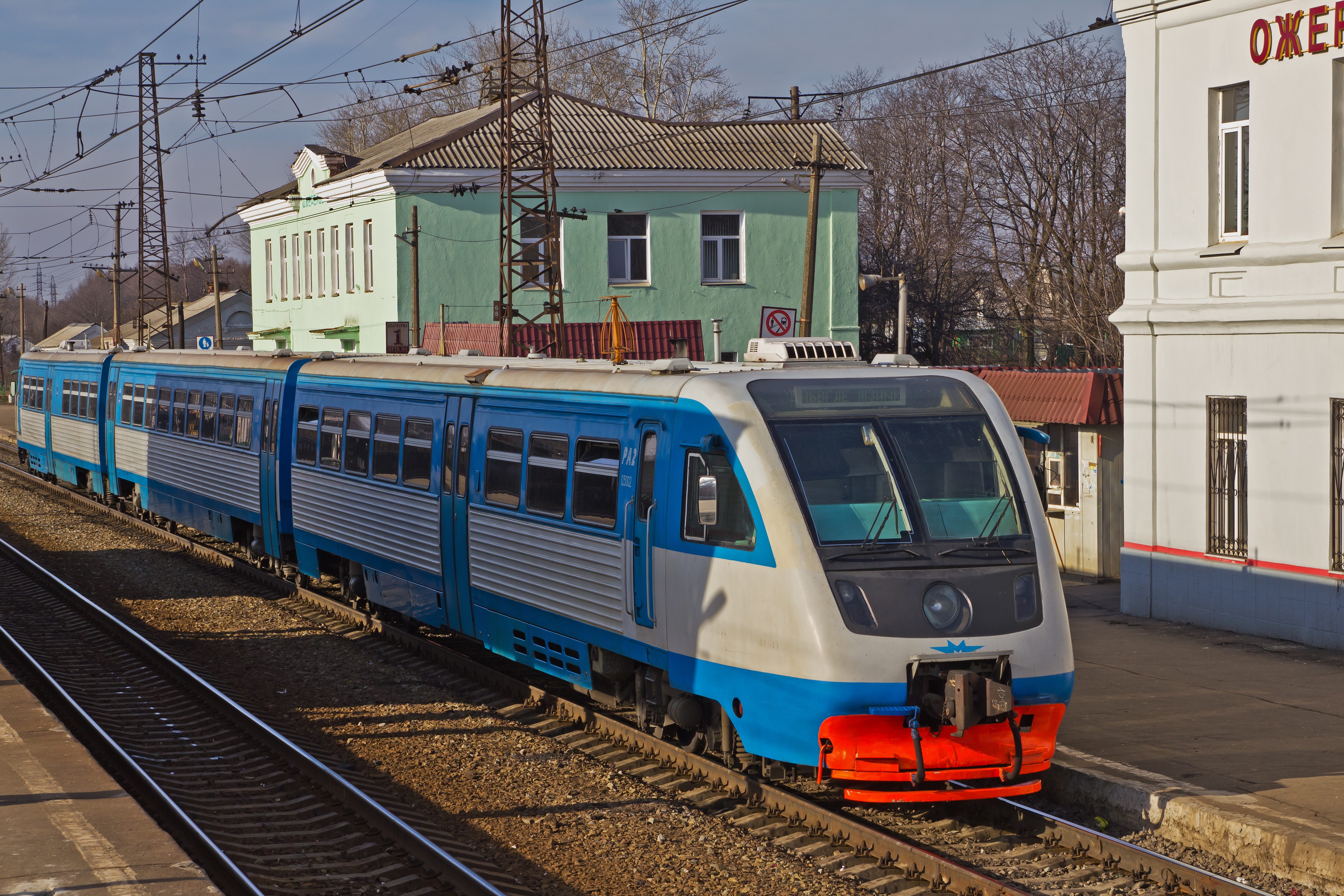 A railbus (Metrovagonmash RA2) at Ozherelye station, Moscow Oblast, Russia.